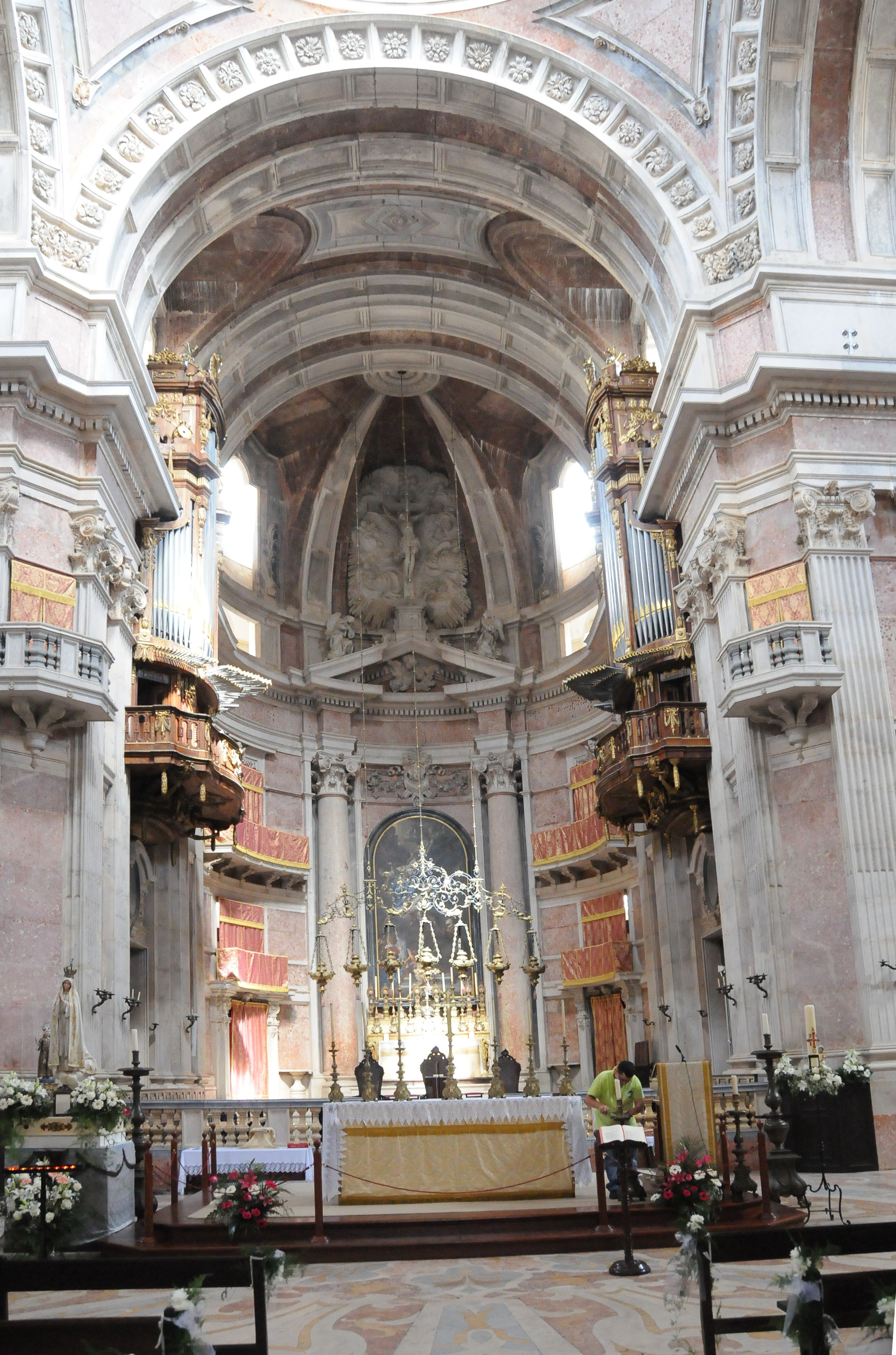 Interior of Mafra Church